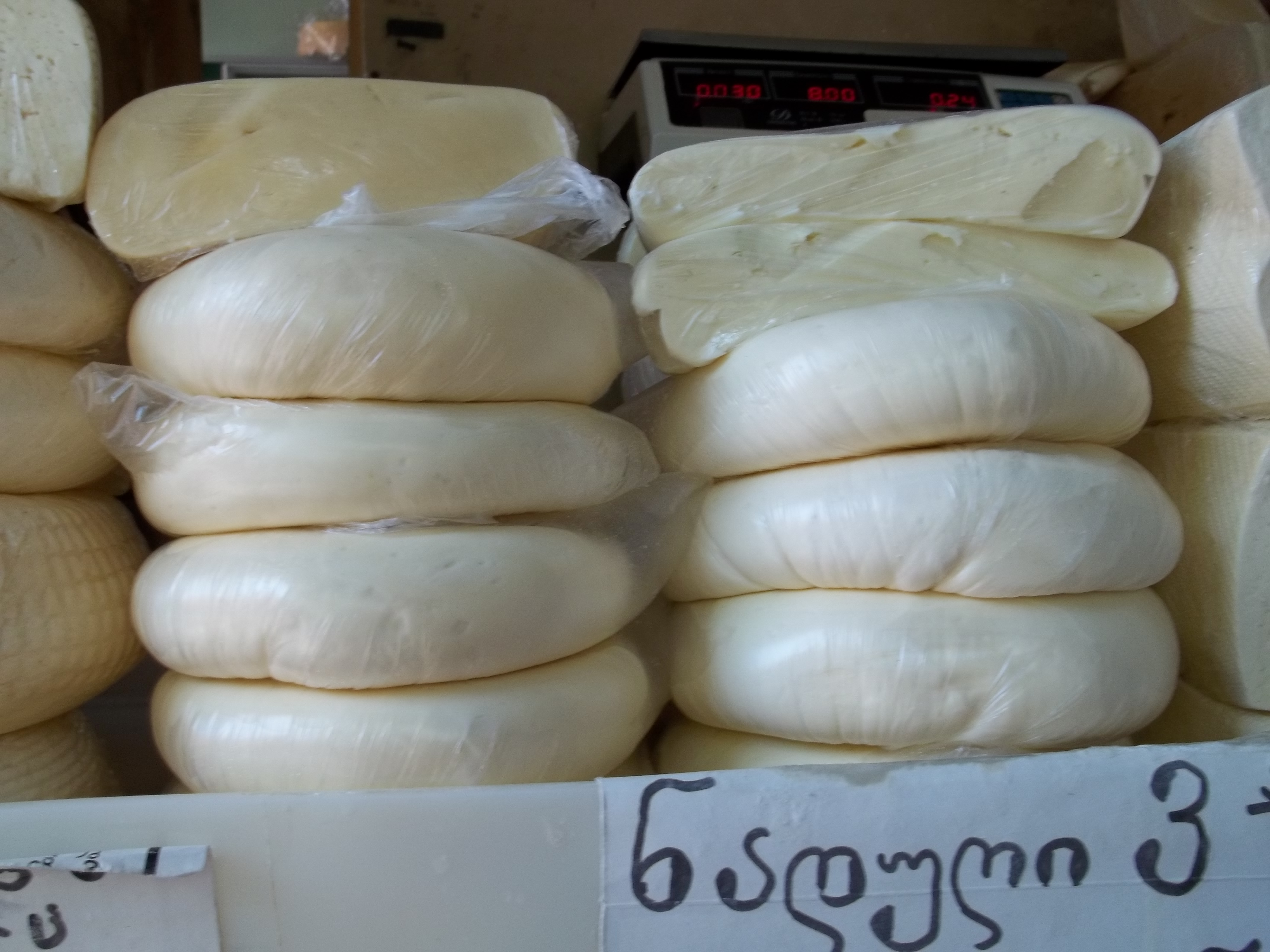 Sulguni or suluguni, Georgian cheese